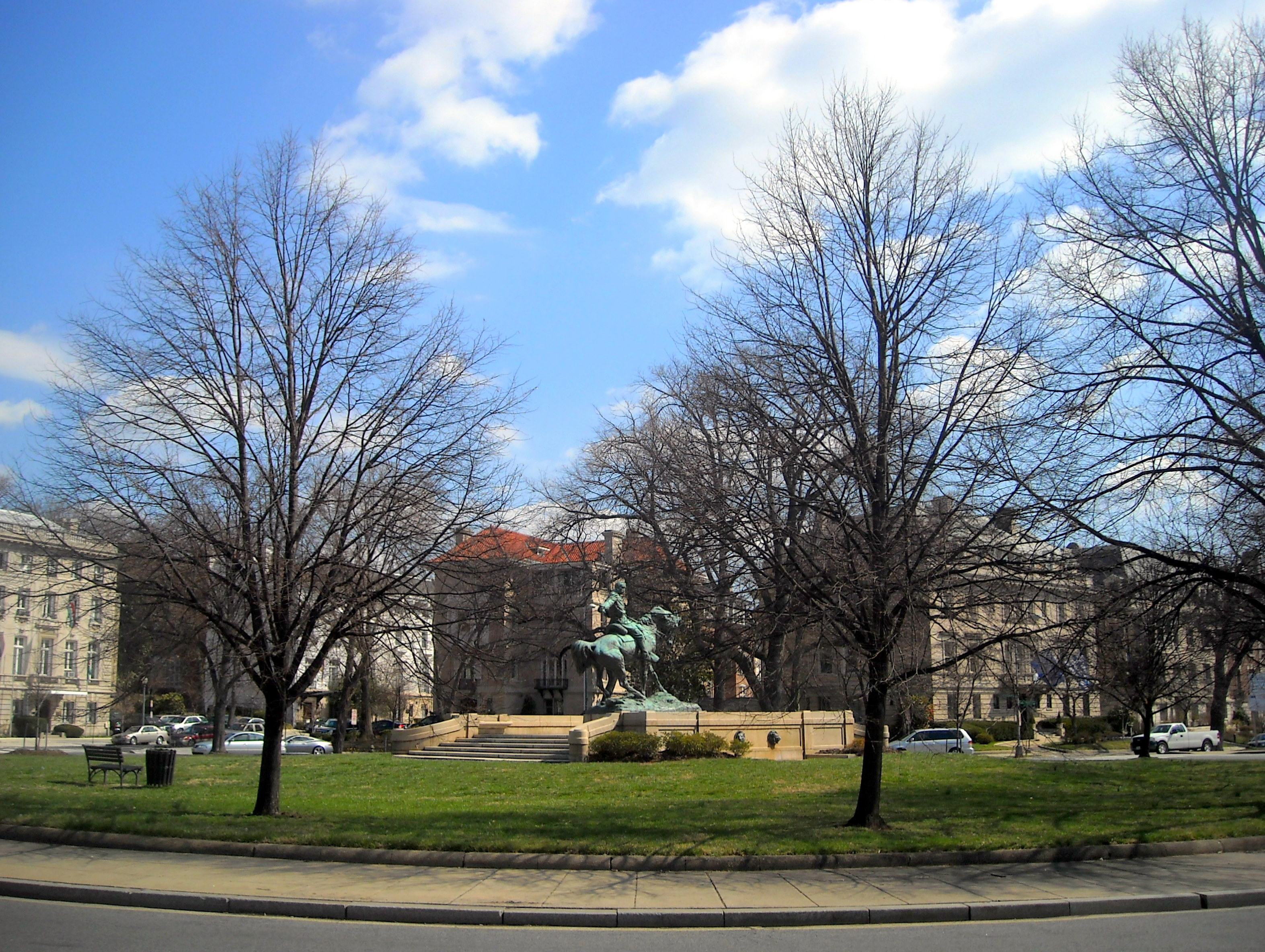 Sheridan Circle in the Sheridan-Kalorama neighborhood of Washington, D.C. The memorial honoring General Philip Sheridan is located in the center of the circle.